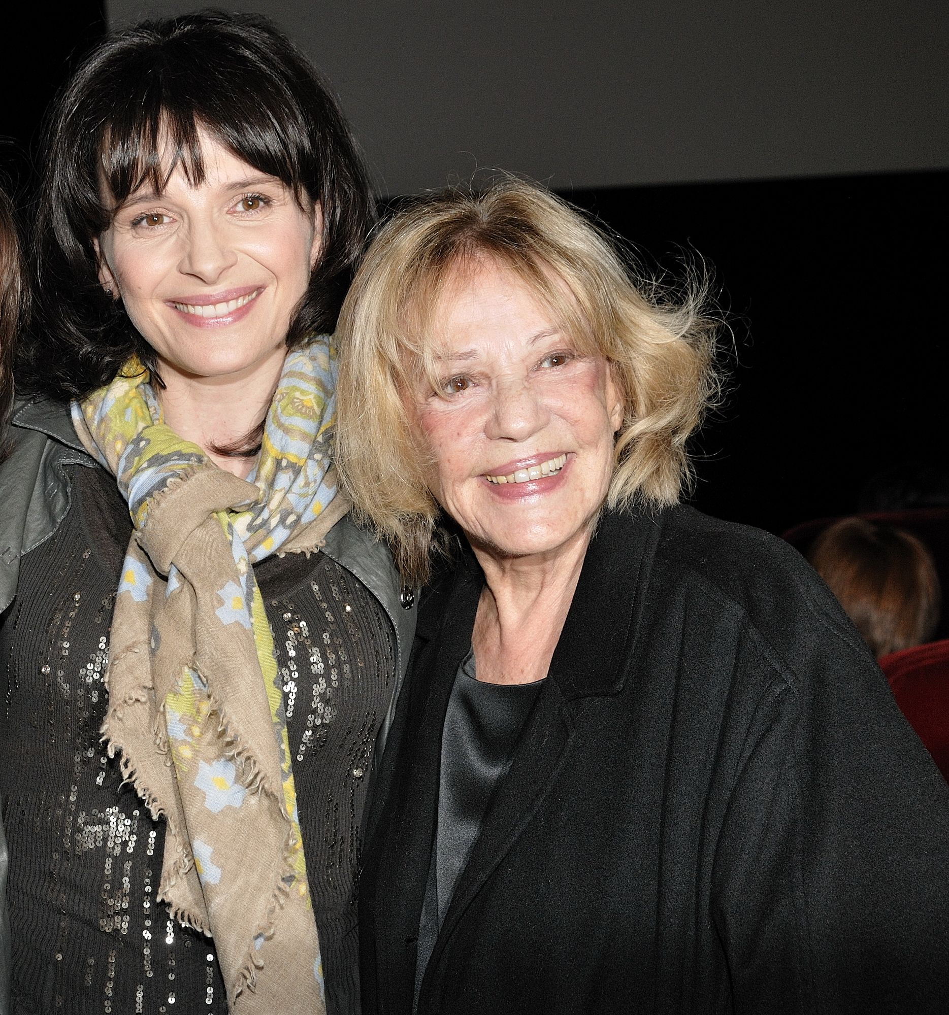 Juliette Binoche (French actress), and Jeanne Moreau (French actress) pose prior to the screening of the movie 'Juliette Binoche dans les Yeux' held at the Elysee Biarritz movie theatre in Paris, France on October 22, 2009. Photo by Nicolas Genin/ABACAPRESS.COM